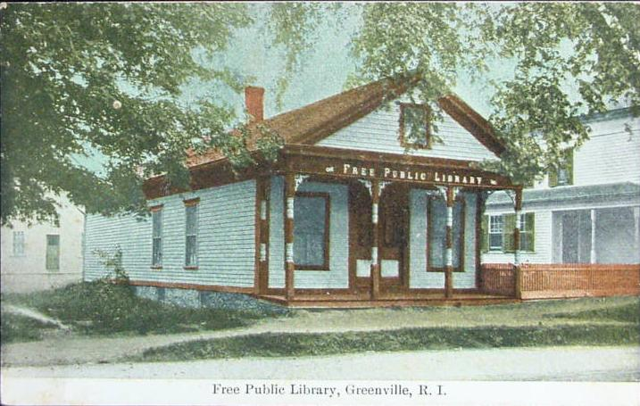 A copy of a 1908 postcard view published by H. Tobey Smith. The image shows the old Greenville Public Library in Greenville, Rhode Island within the town of Smithfield, Rhode Island in the United States of America.